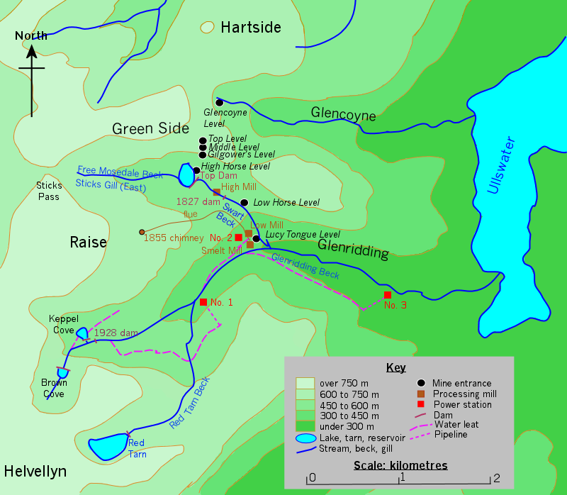 Map of Greenside Mine showing water resources